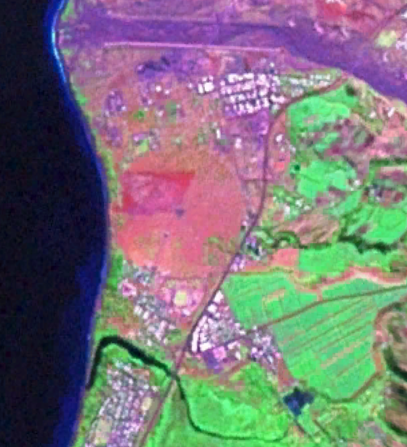 Réunion, north of Saint-Paul: the circle is the site of the former antenna of the Omega Navigation System (false colors)